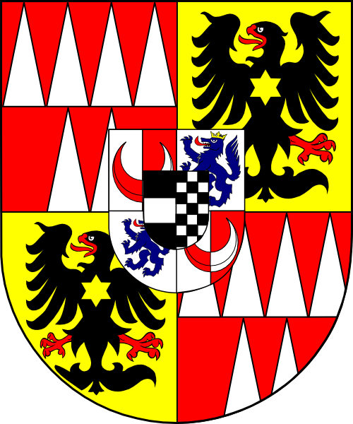 Coat of arms (shield only) of Leopold Friedrich von Egkh und Hungersbach, bishop of Olomouc, Czech Republic (1758 - 1760).